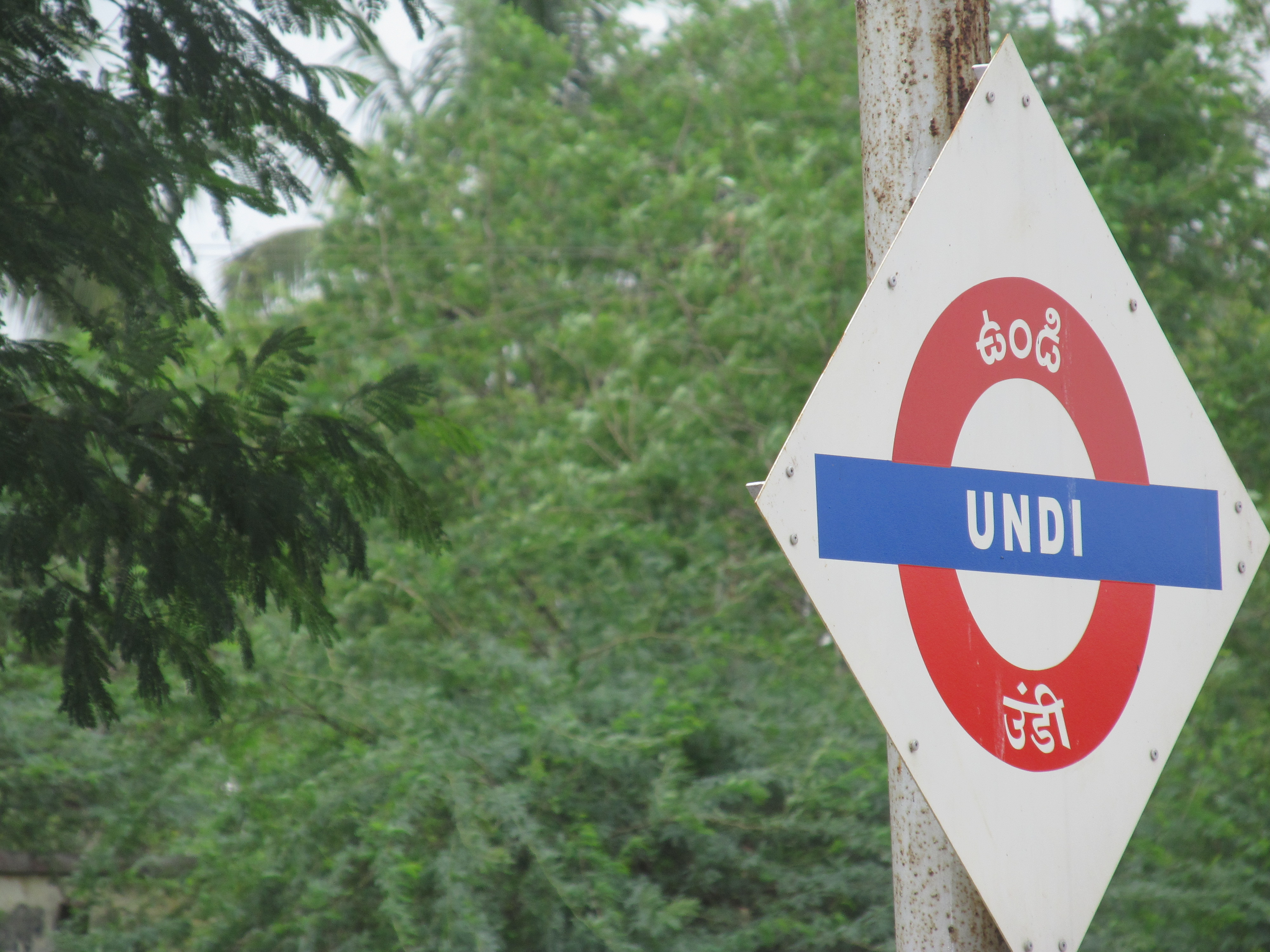 A picture near Undi Railway Station